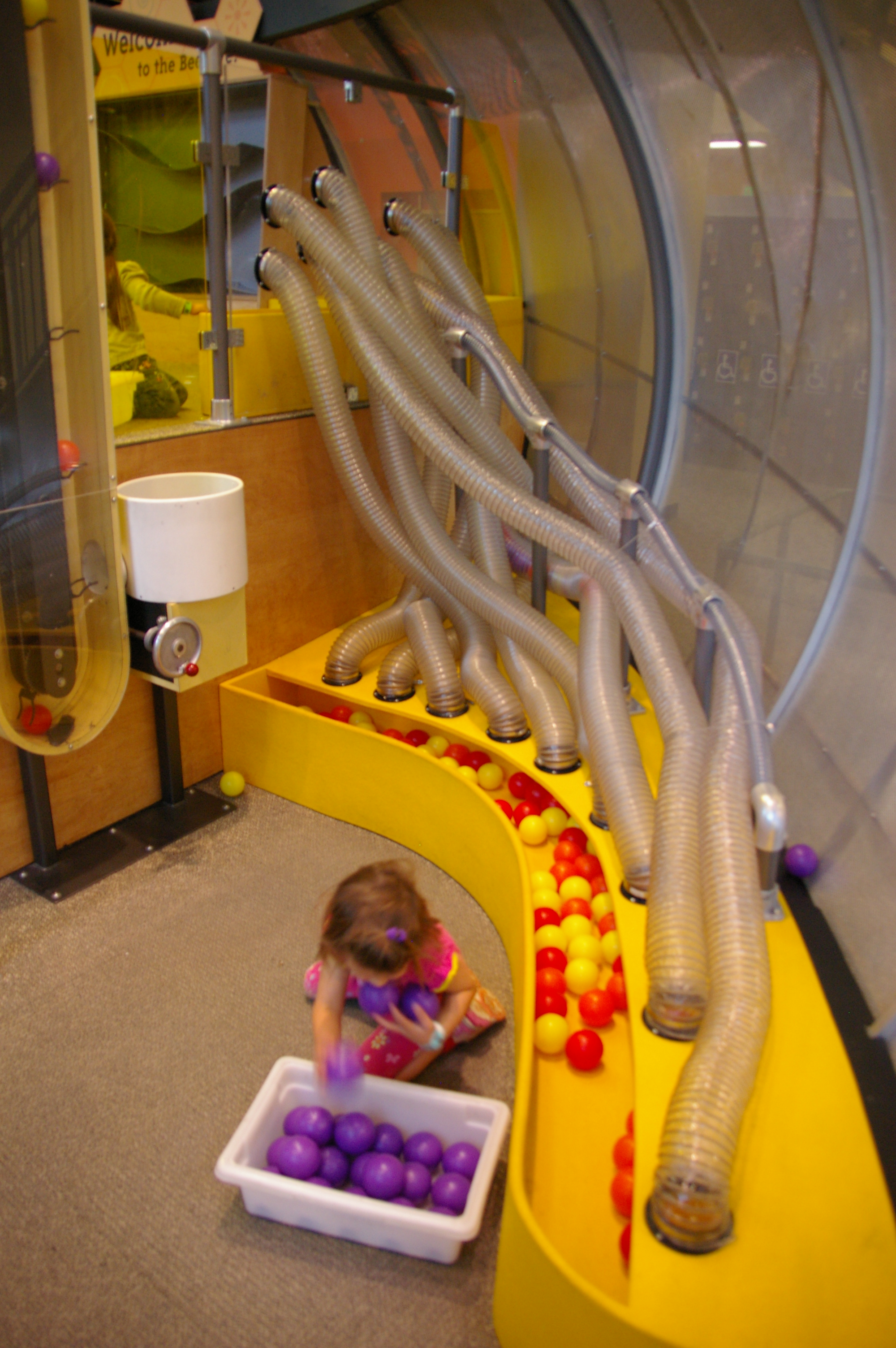 Plastic ball play area at The Garden in Discovery Gateway.